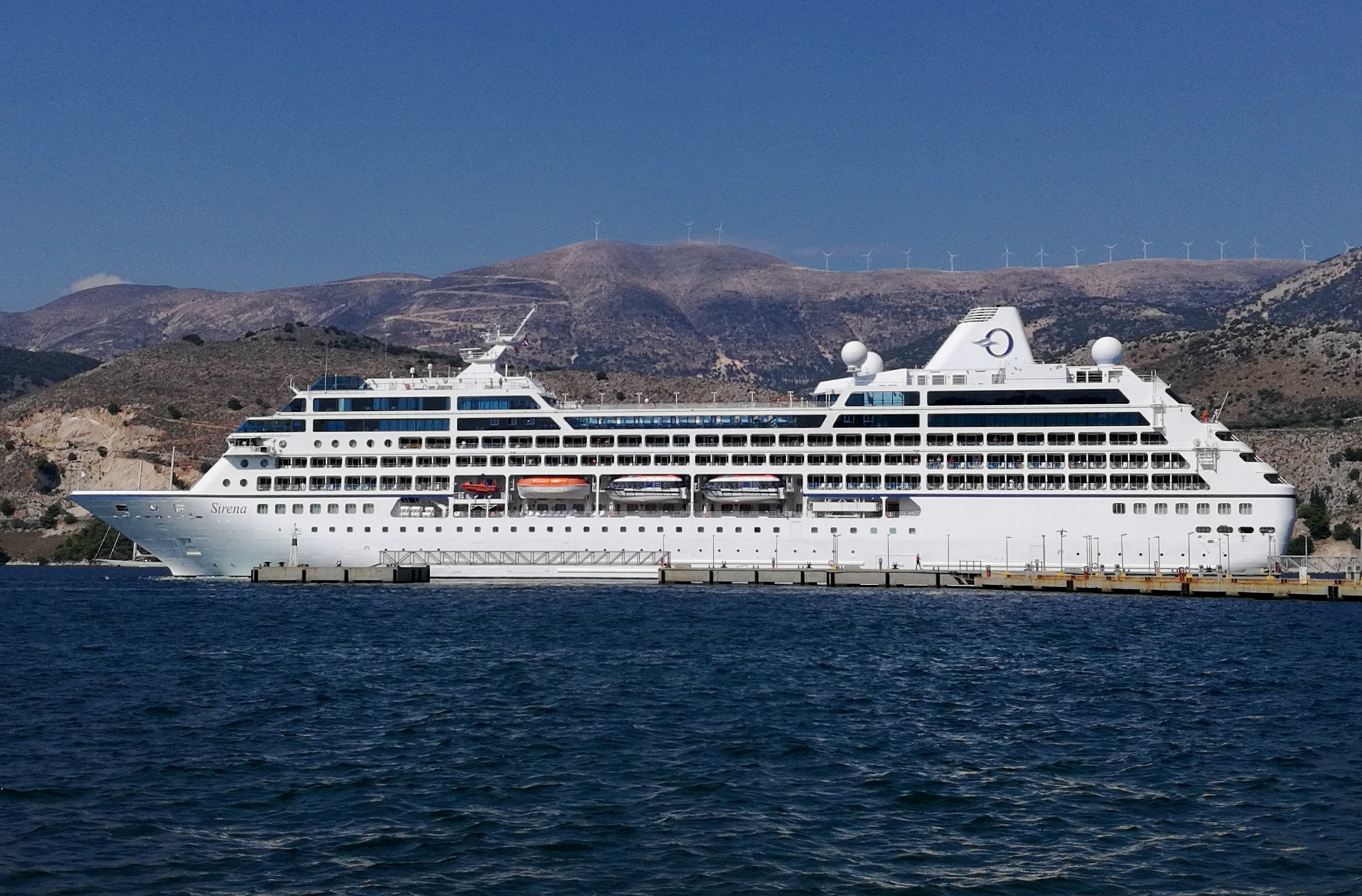 Sirena docked at the port of Argostoli